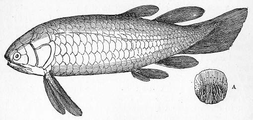 Fig. 106.—Holoptychius nobilissimus, restored. Old Red Sandstone, Scotland. A, Scale of the same.